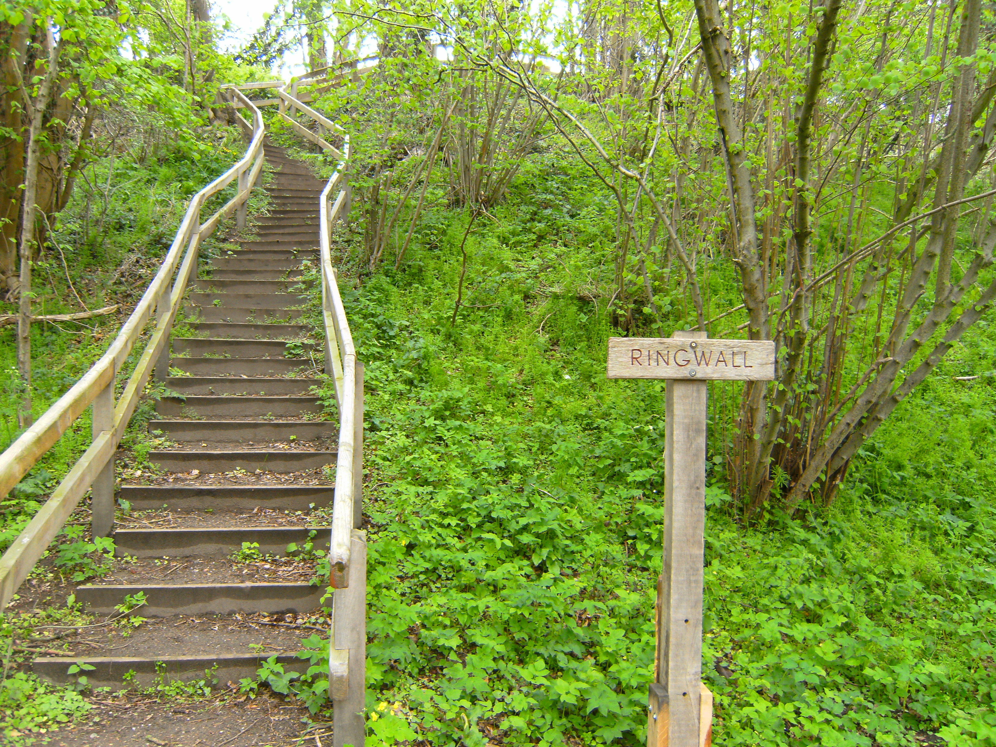 Circular wall south of Pöppendorf (Pöppendorfer Ringwall) near Lübeck, Germany. Stairs from the street to the crown of the wall.